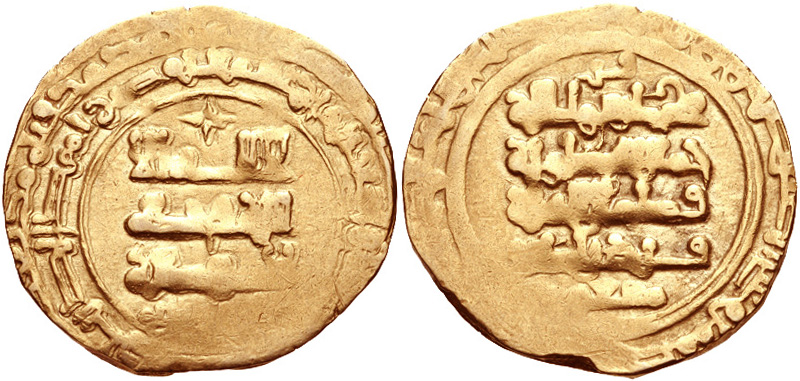 Coin of the Ghaznavid ruler Farrukh-Zad.